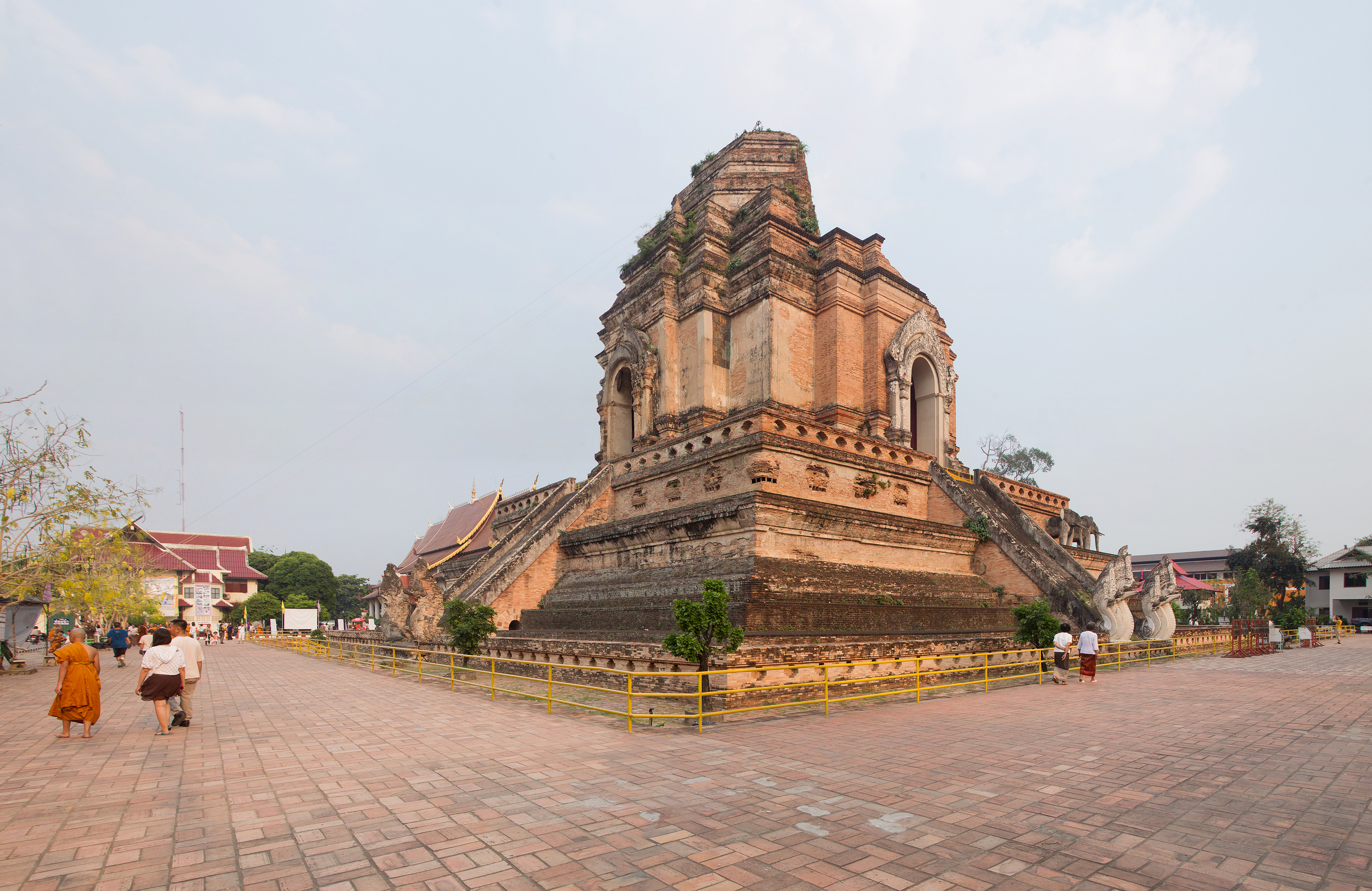 The chedi in Wat Chedi Luang, Chiang Mai, Chiang Mai Province, Thailand